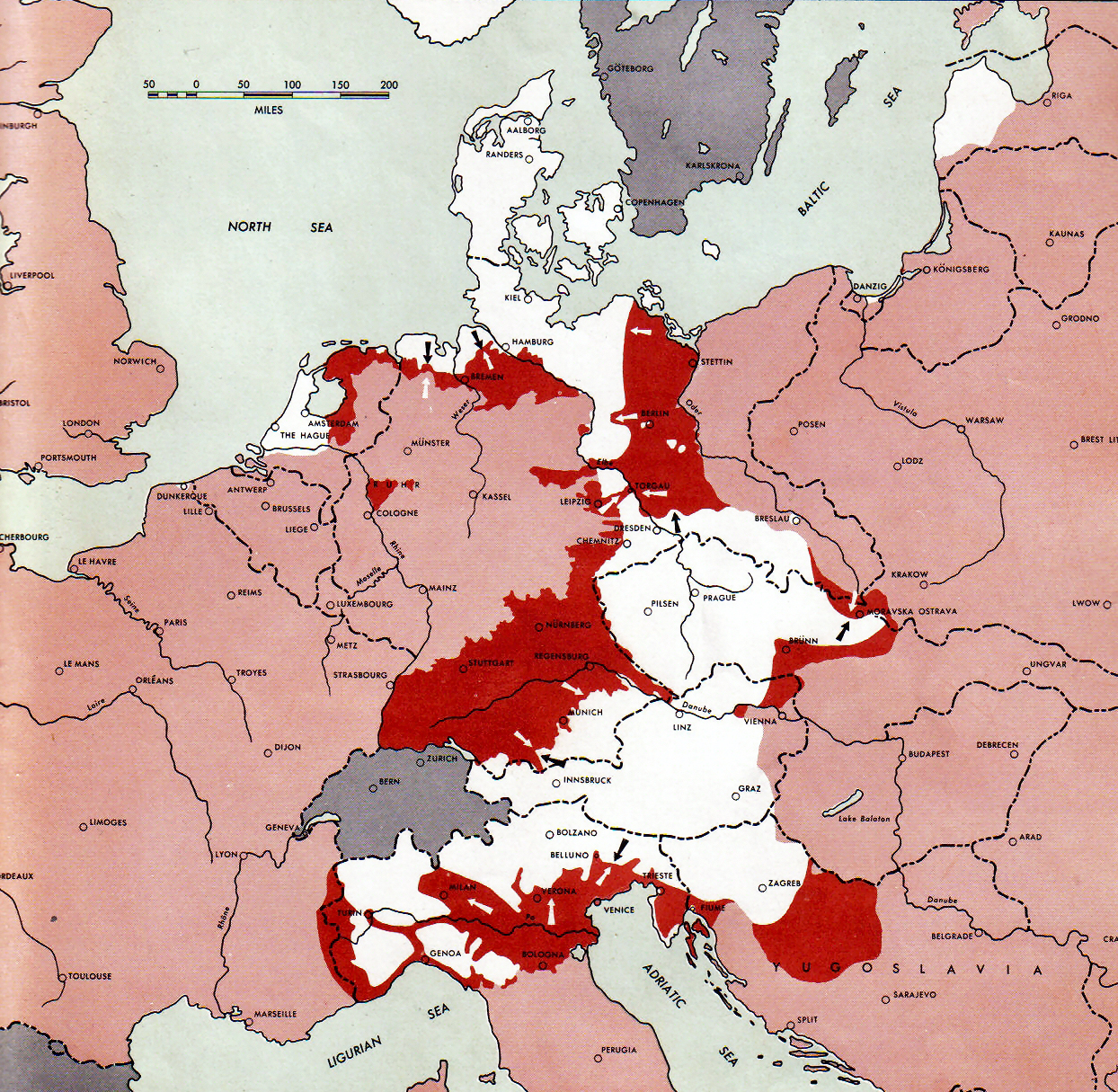 Map of the front against Germany: This map is taken from the source "Atlas of the World Battle Fronts in Semimonthly Phases to August 15th 1945: Supplement to The Biennial report of The Chief of Staff of the United States Army July 1, 1943 to June 30 1945 To the Secretary of War". (See Cover, Forward and Map details)